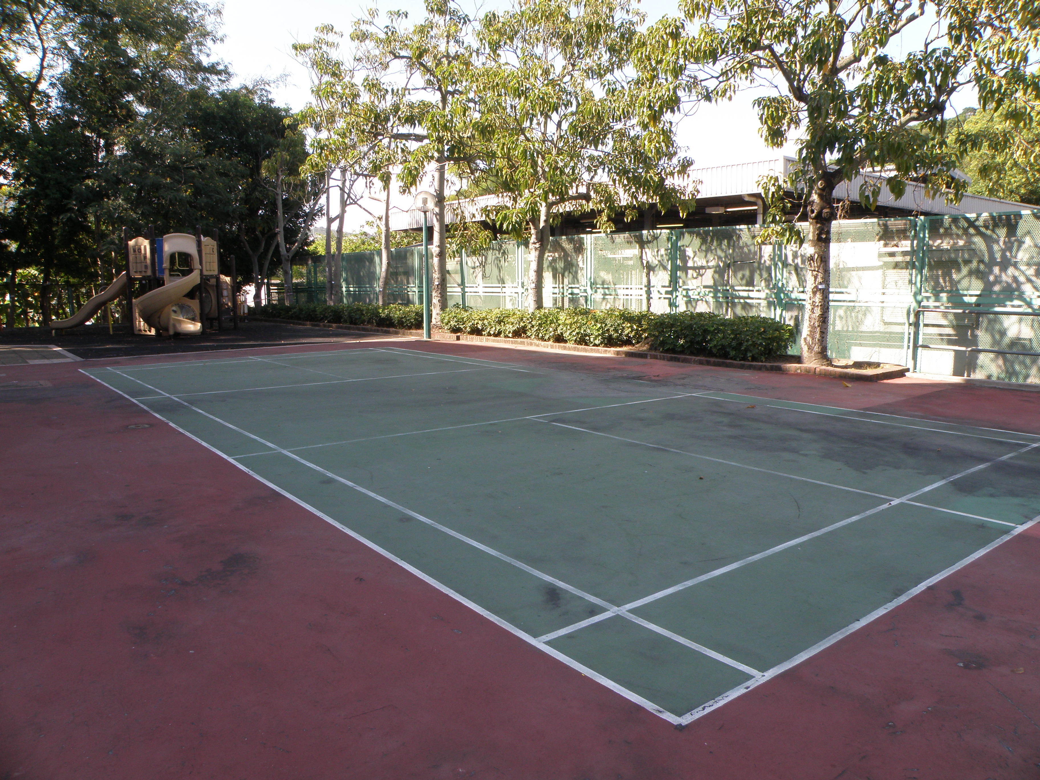 Long Bin Interim Housing in Yuen Long, Hong Kong.